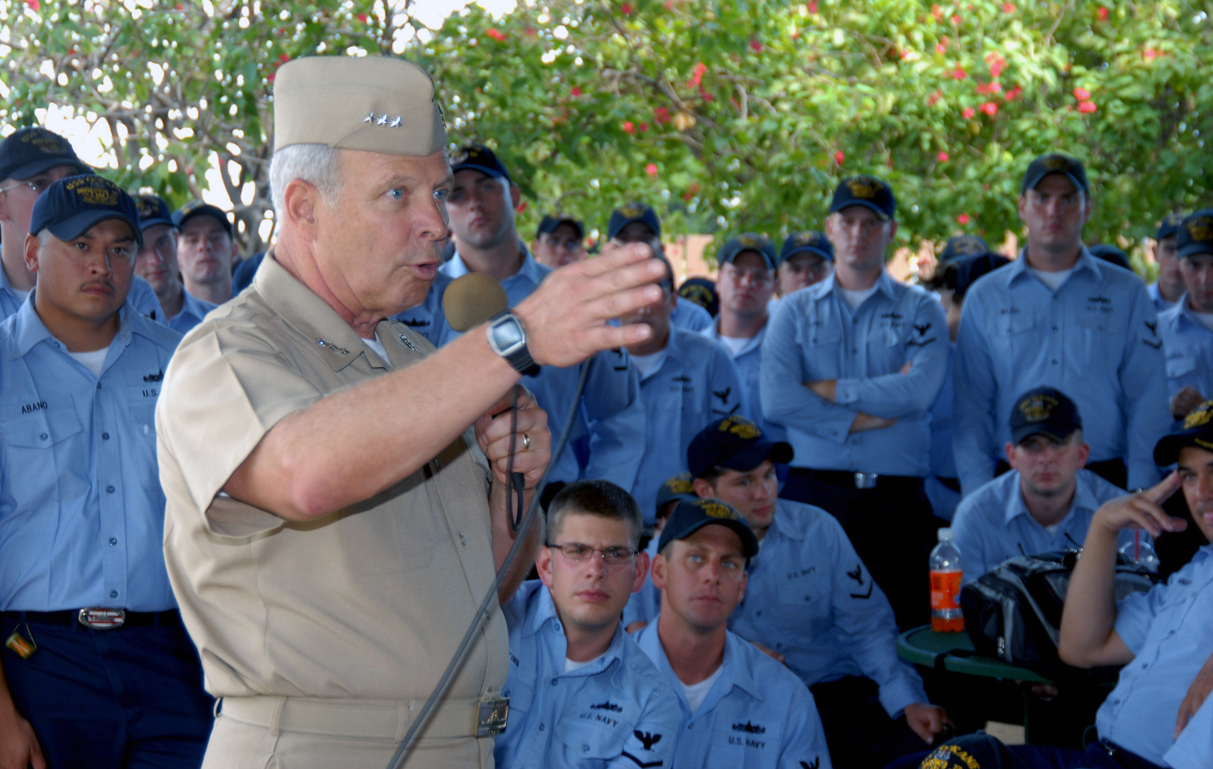 PEARL HARBOR, Hawaii (Sept. 18, 2007) - Vice Adm. Terrance T. Etnyre, commander of Naval Surface Forces (CNSF), speaks to Sailors assigned to Pearl Harbor-based ships during a visit to Naval Station Pearl Harbor. The mission of CNSF is to provide operational commanders with highly trained, effective, and technologically relevant surface forces that are certified across the full spectrum of warfare areas. U.S. Navy photo by Mass Communication Specialist 3rd Class Michael A. Lantron (RELEASED)